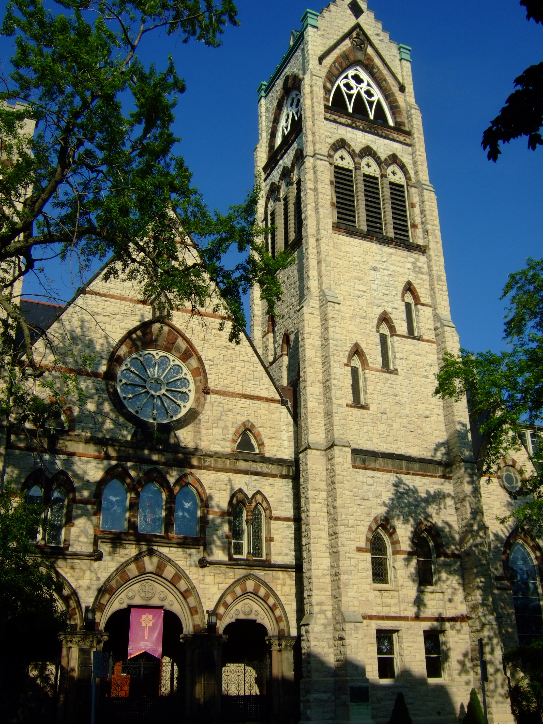 Immanuel Presbyterian Church in Milwaukee, Wisconsin. Designed by E. Townsend Mix in Gothic Revival style and built at a cost of $200,000 in the wealthy Yankee Hill neighborhood in 1873, the church is located just one block away from another church designed by Mix, All Saints Episcopal, which was originally built as Olivet Congregational Church. Both edifices are now listed on the National Register of Historic Places. Built of buff-colored Wauwatosa limestone enlivened by red and gray limestone interjections typical of the Victorian era's pleasure in polychrome ornamentation, Immanuel Presbyterian also had a colorful interior designed by Peter B. Wright that was destroyed in an 1887 fire.